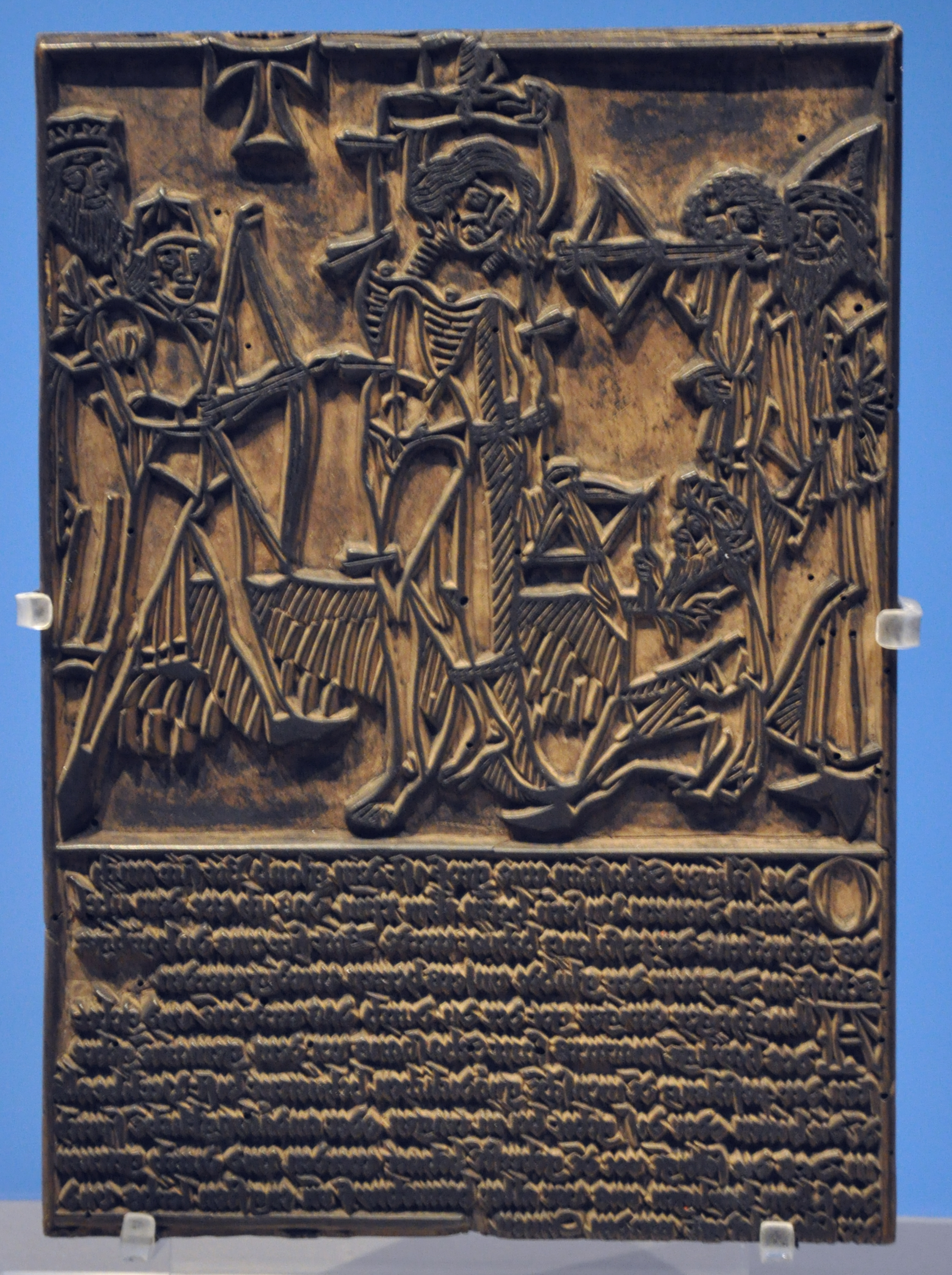 British Museum reference 1847,0522.1 Detailed description printing-block (woodcut), probably pearwood, Martyrdom of Saint Sebastian, South Germany, c. 1470–1475 Location Room 40